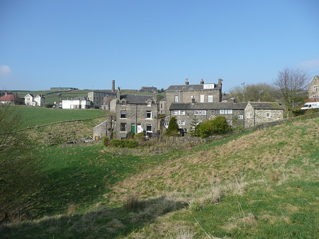 Black Hill, Wadsworth This is the name on the large-scale OS map, but the houses are in a little valley.